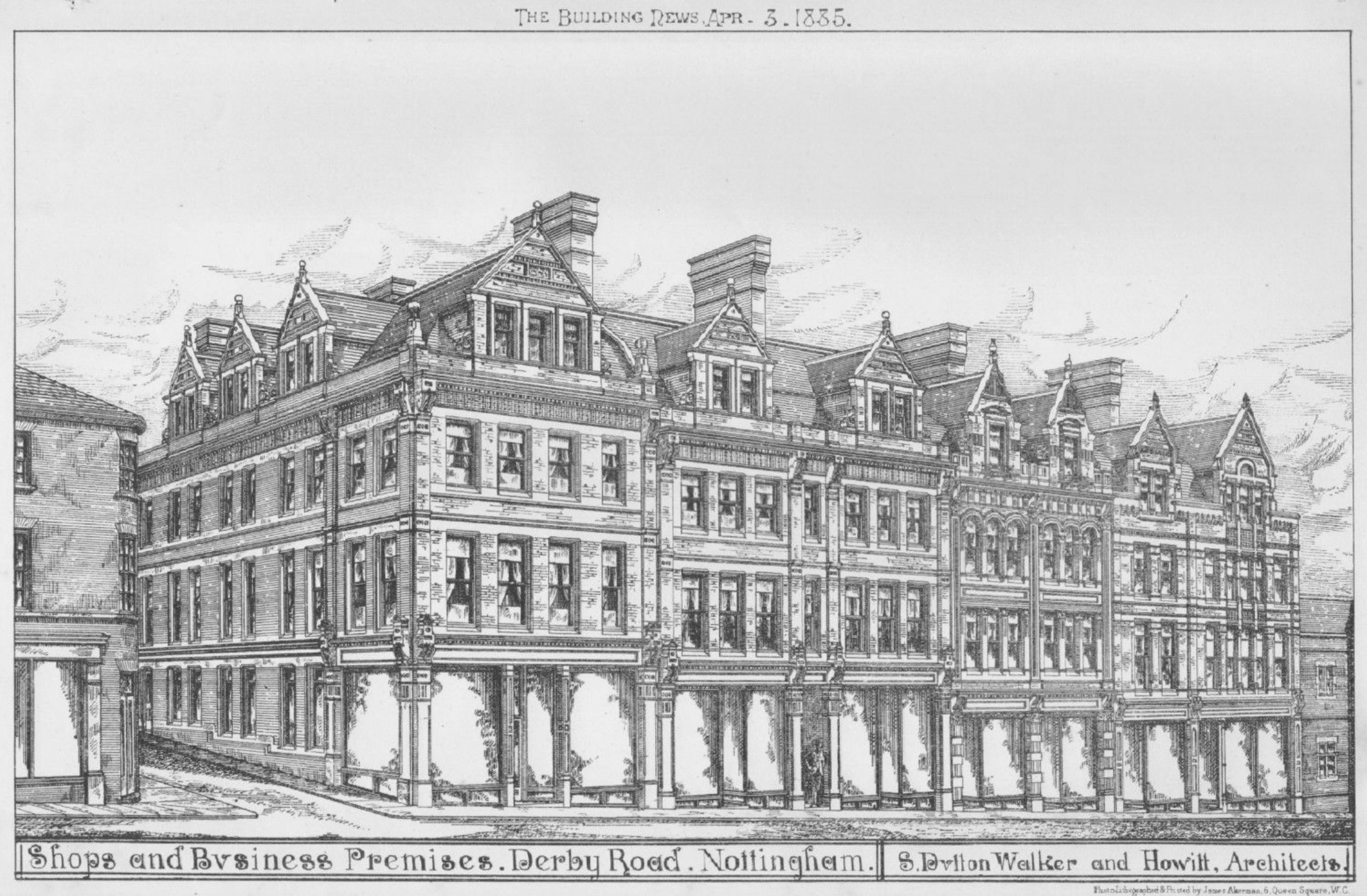 Shops and Business Premises, Derby Road, Nottingham. Samual Dutton Walker and John Howitt Architects. From The Building News 3 April 1885.